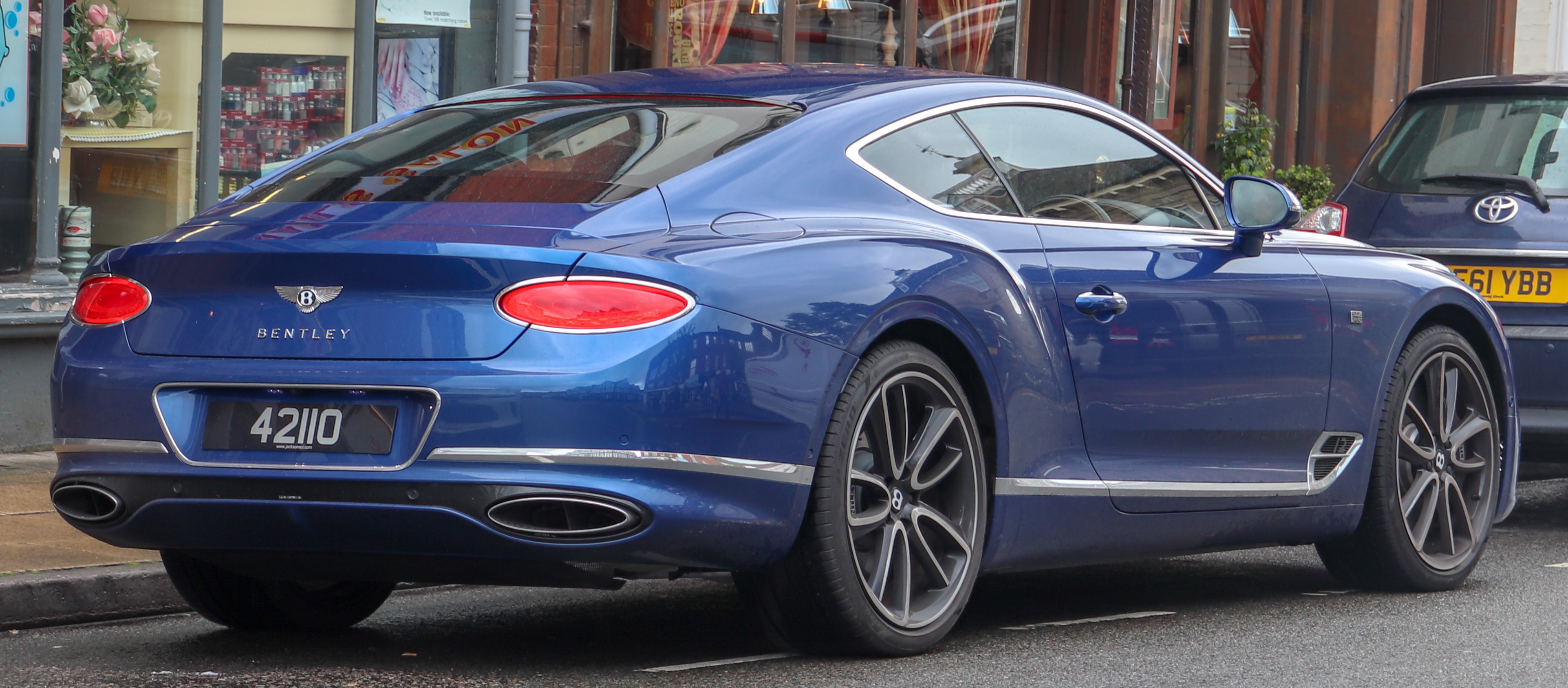 2019 Bentley Continental GT Coupe 6.0 Rear Taken in Warwick